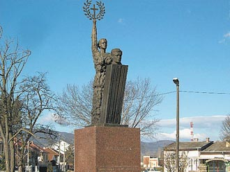 The Monument Macedonia dedicated to the former Macedonian president Boris Trajkovski who died in an airplane crash.